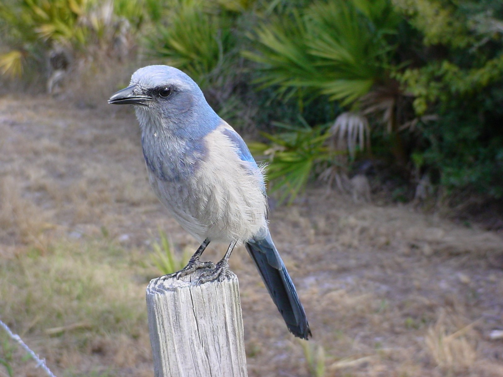 Florida Scrub Jay Aphelocoma coerulescens, on a fence in Sebring, Florida, USA.